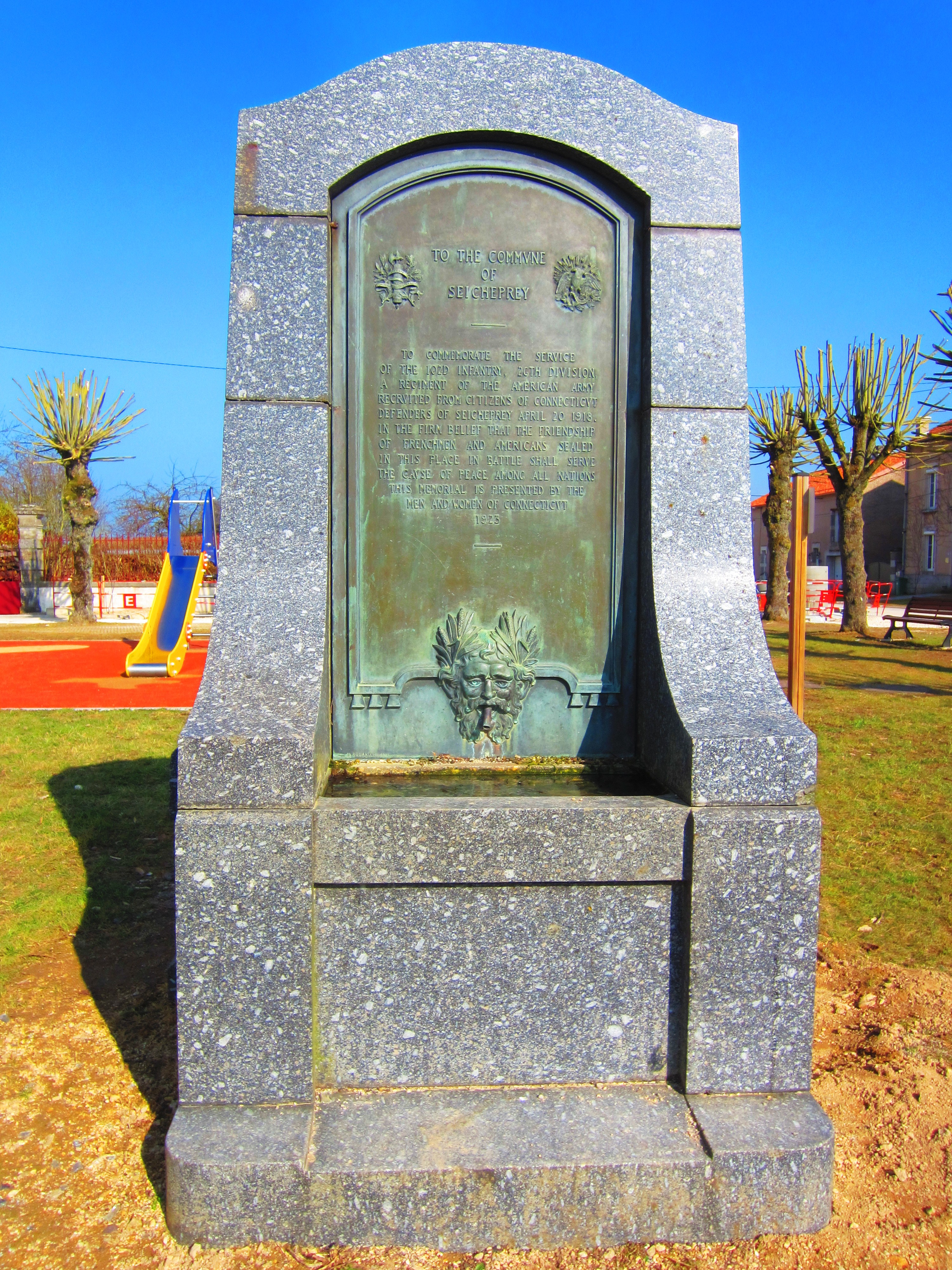 Seicheprey fountain